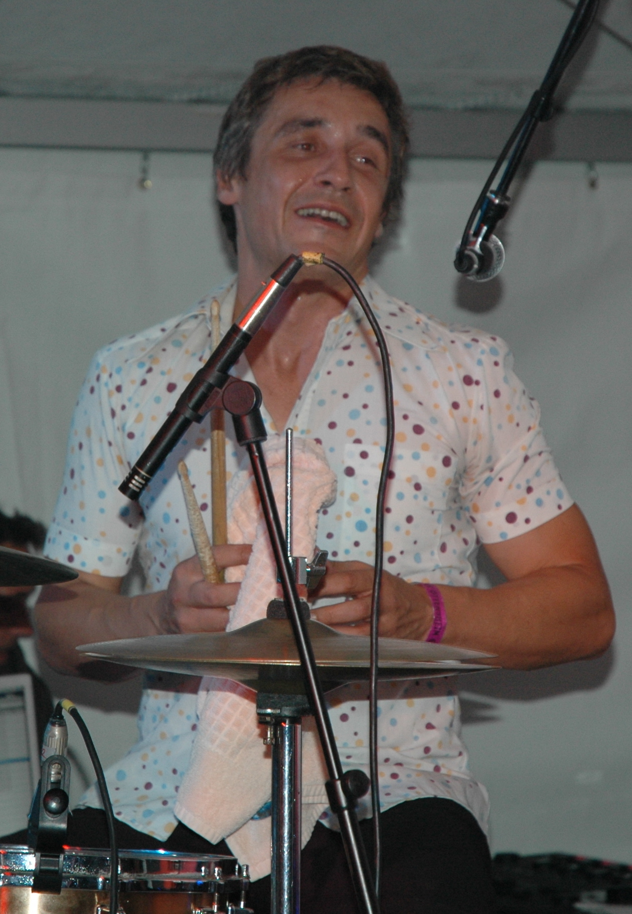 Austrian musician Rainer Binder-Krieglstein (alias "Binder & Krieglstein") playing drums and singing at the "Open Air Ottensheim"-festival in Ottensheim, Upper Austria.